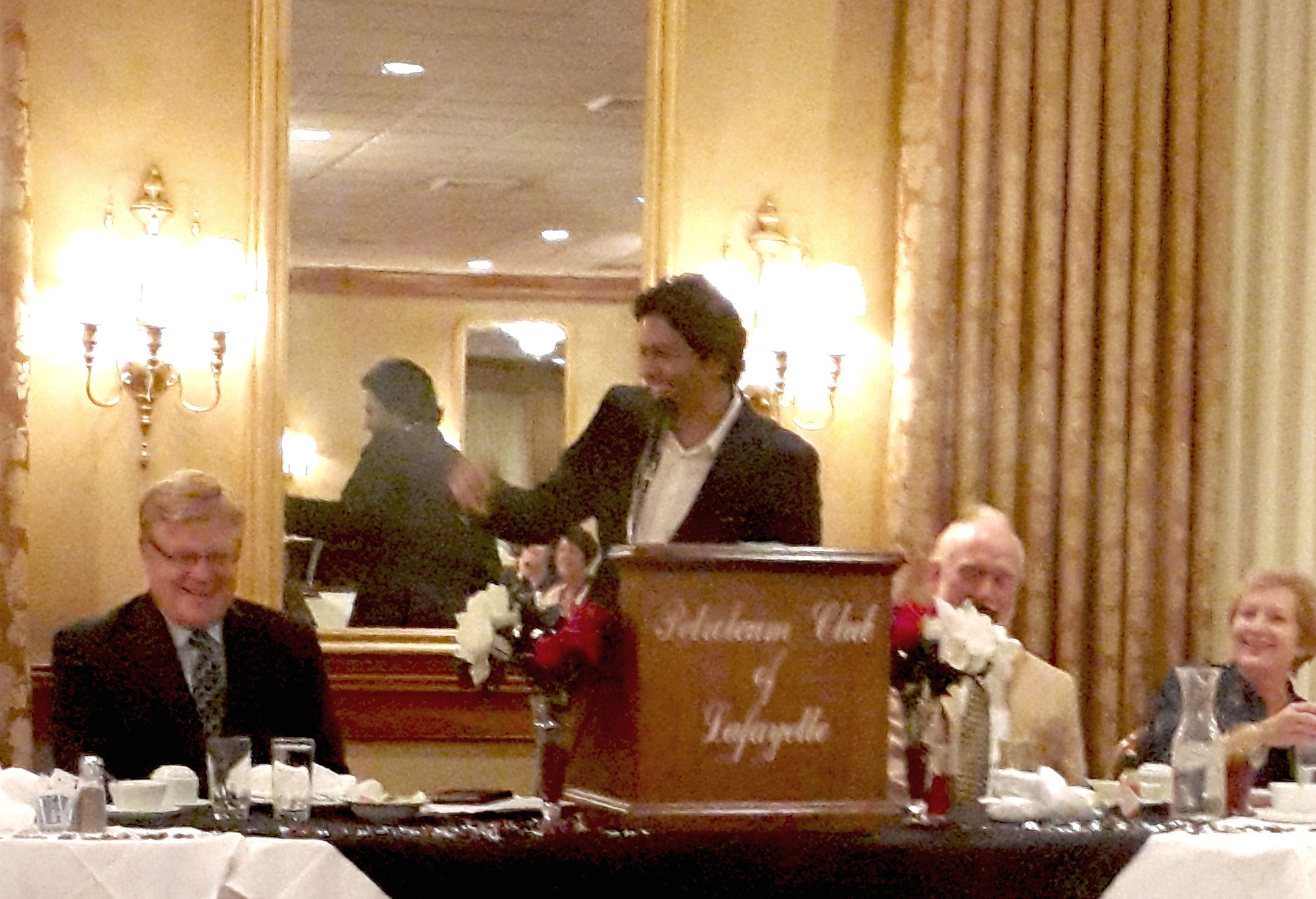 Saad khan conference